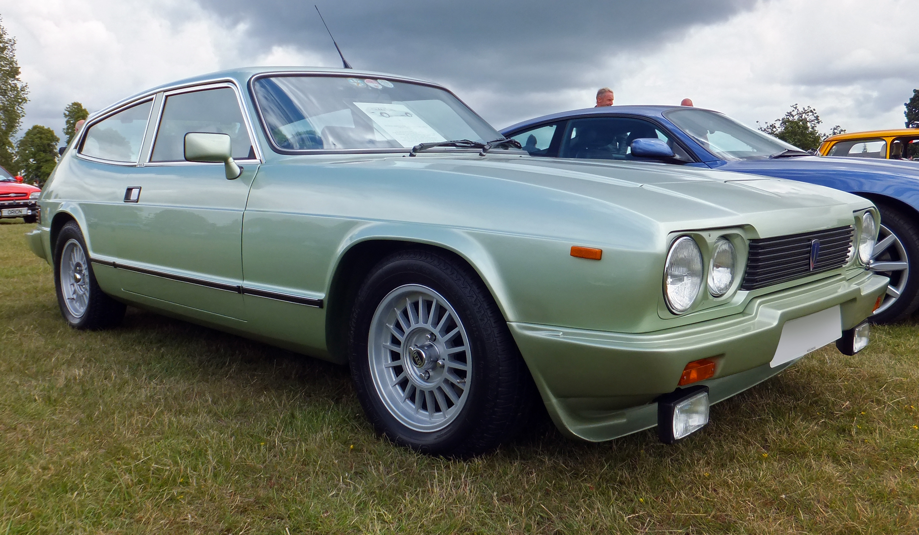 1990 Middlebridge Scimitar GTE, the 56th one built